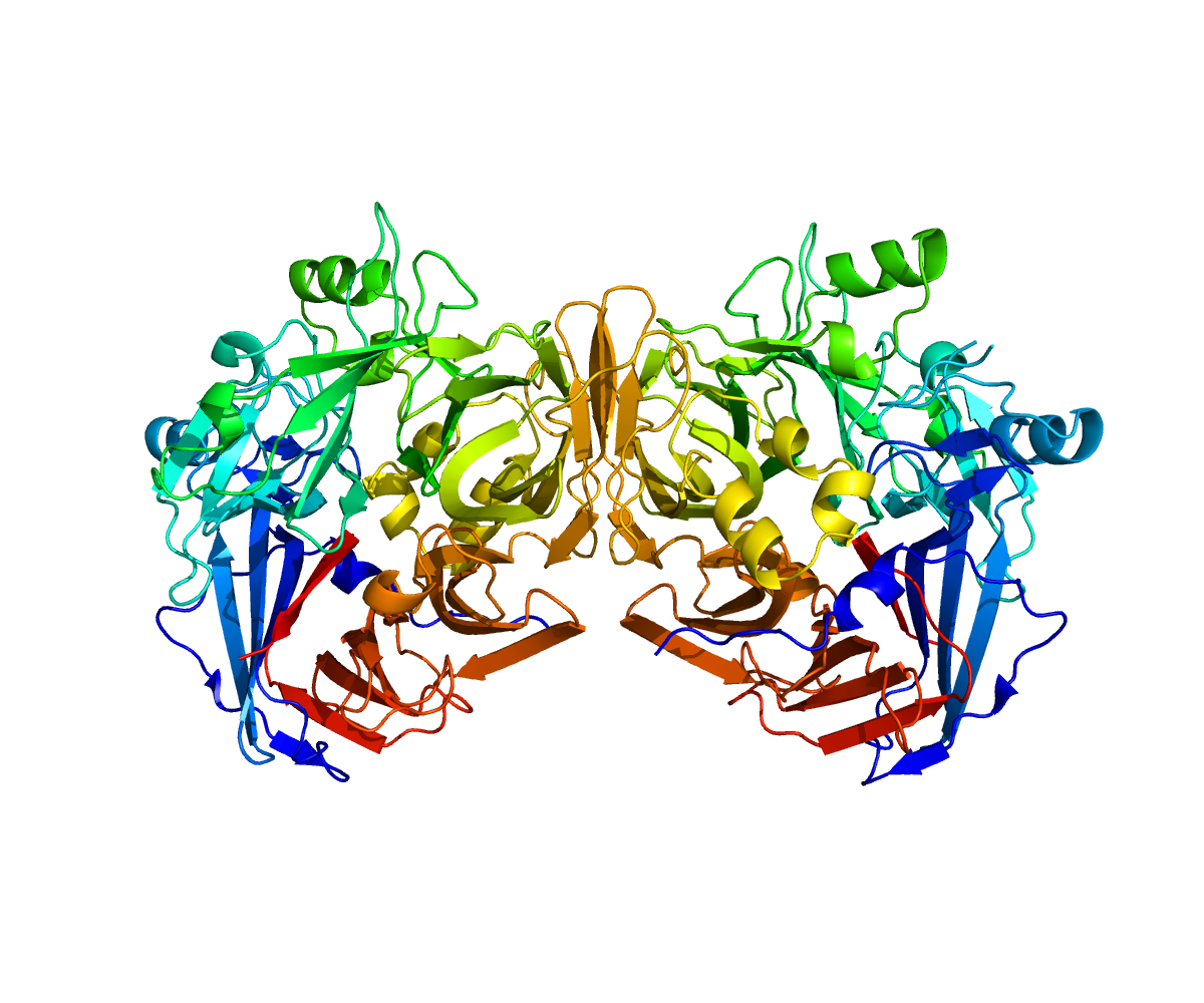 Structure of protein RPE65.Based on PyMOL rendering of PDB 3FSN.